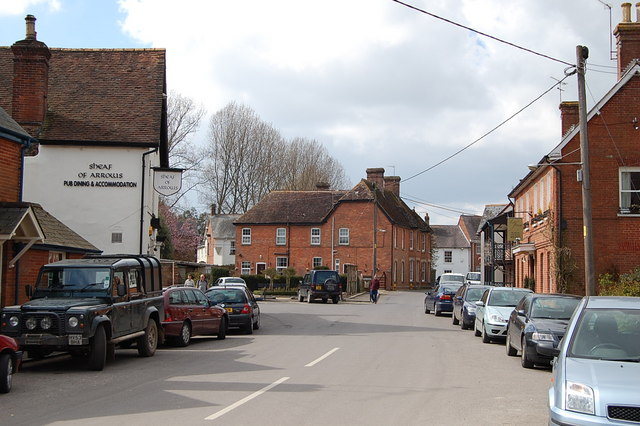 Salisbury Street, Cranborne, Dorset Looking west towards the Square and the Sheaf of Arrows public house.